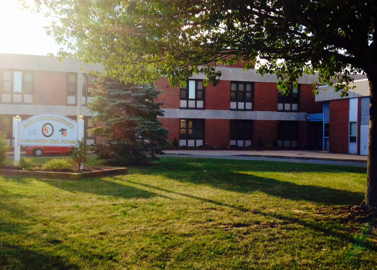 Babylon Junior/Senior High School - 2014